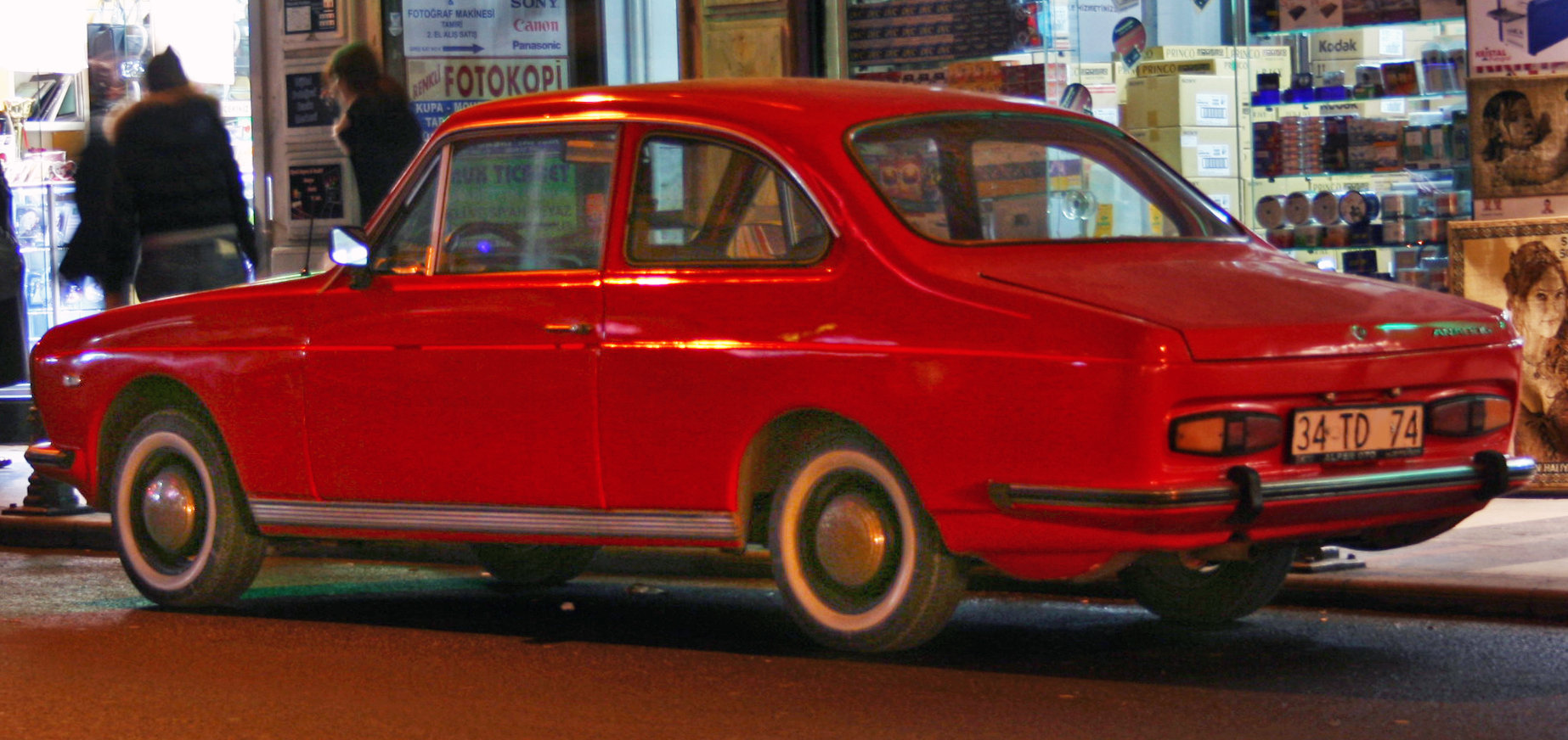 Anadol A1 (the facelifted Mark II version) parked on Ankara Caddesi.